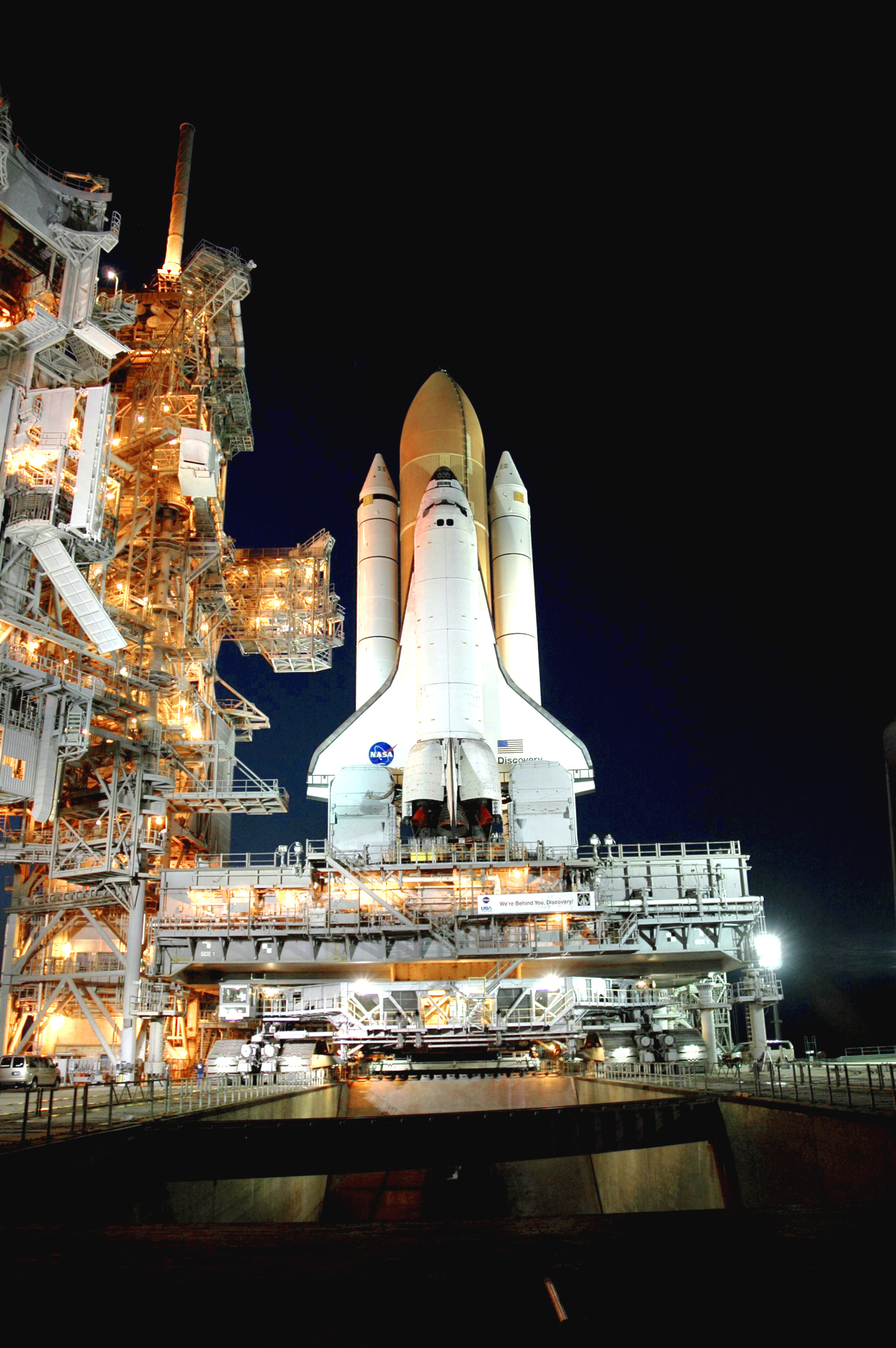 The lights from the fixed and rotating service structures bathe Space Shuttle Discovery in a warm glow as it rests on the hardstand of Launch Pad 39B at NASA's Kennedy Space Center after completing the 4.2-mile journey from the Vehicle Assembly Building. First motion was at 12:45 p.m. EDT. The shuttle rests on a mobile launcher platform. The rollout is an important step before launch of Discovery on mission STS-121 to the International Space Station. Discovery's launch is targeted for July 1 in a launch window that extends to July 19. During the 12-day mission, Discovery's crew will test new hardware and techniques to improve shuttle safety, as well as deliver supplies and make repairs to the station.